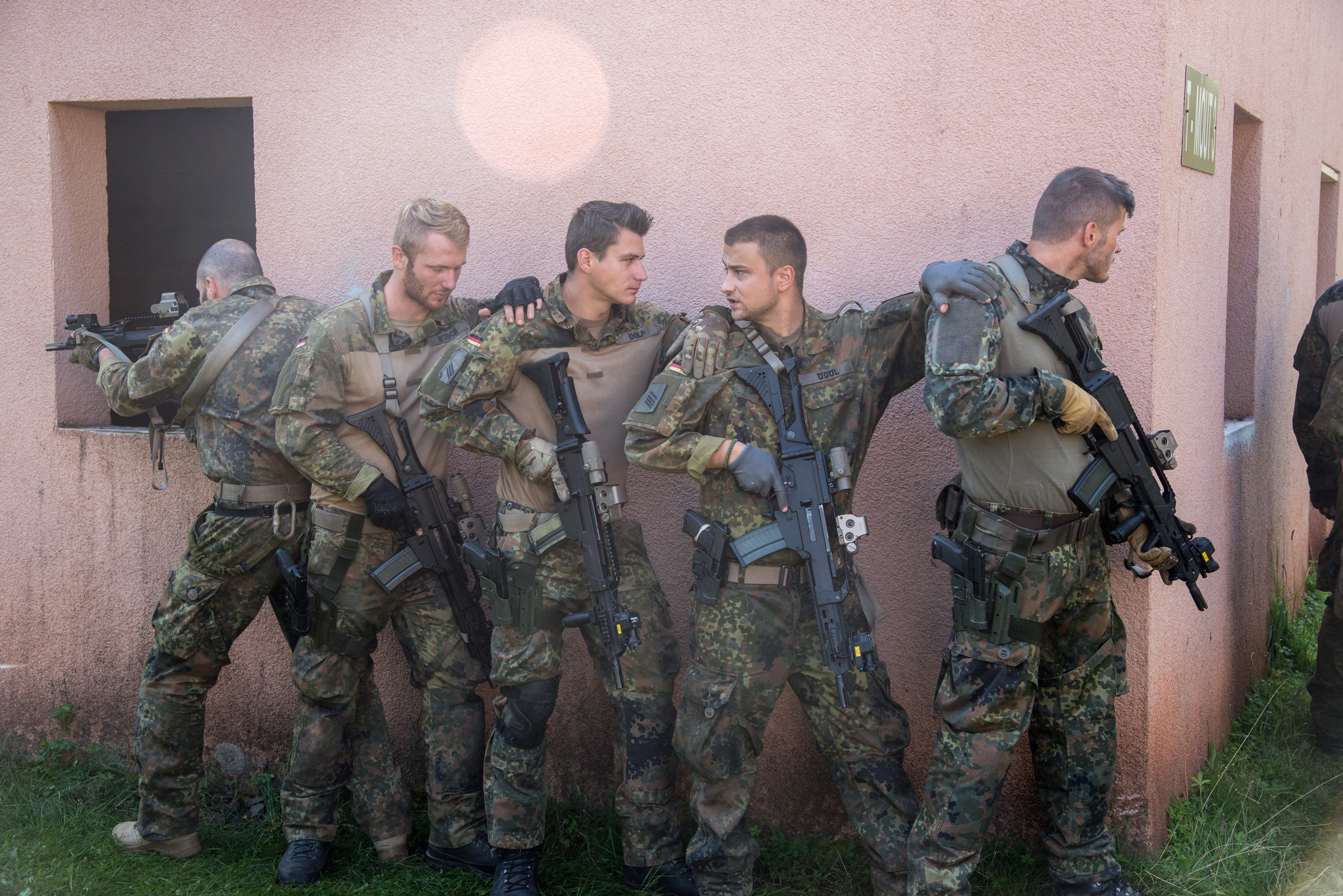 German Paratroopers assigned to Fallschirmjägerregiment 26, Zweibrücken, Germany, train at the Urban Operations Site, Baumholder Local Training Area, Baumholder, Germany, Aug. 23, 2017. Purpose of the training was to learn and practice proper movement techniques in an urban environment in preparation of an upcoming live fire exercise.